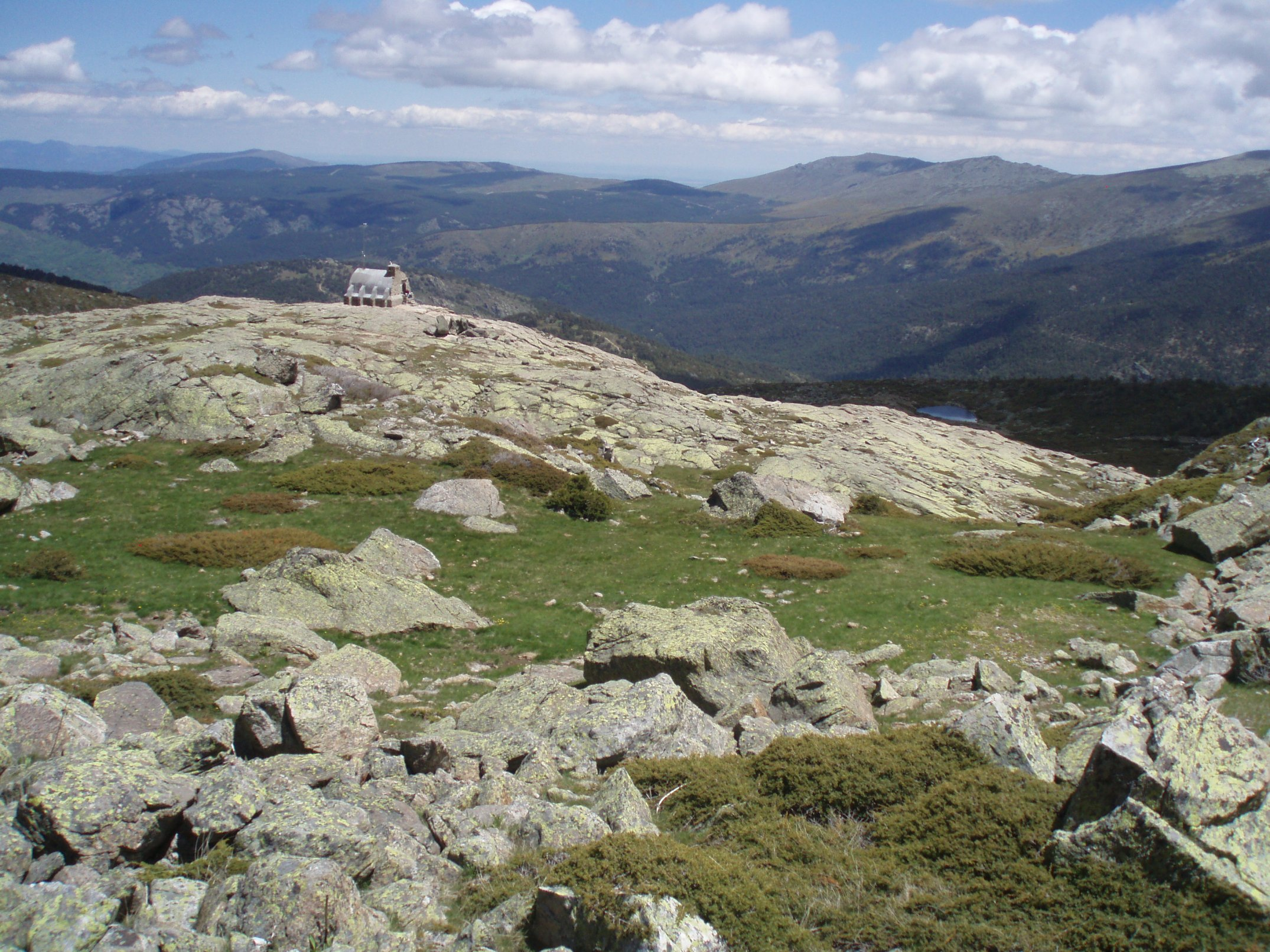 Zabala mountain refuge in the Sierra de Guadarrama (Community of Madrid, Spain).